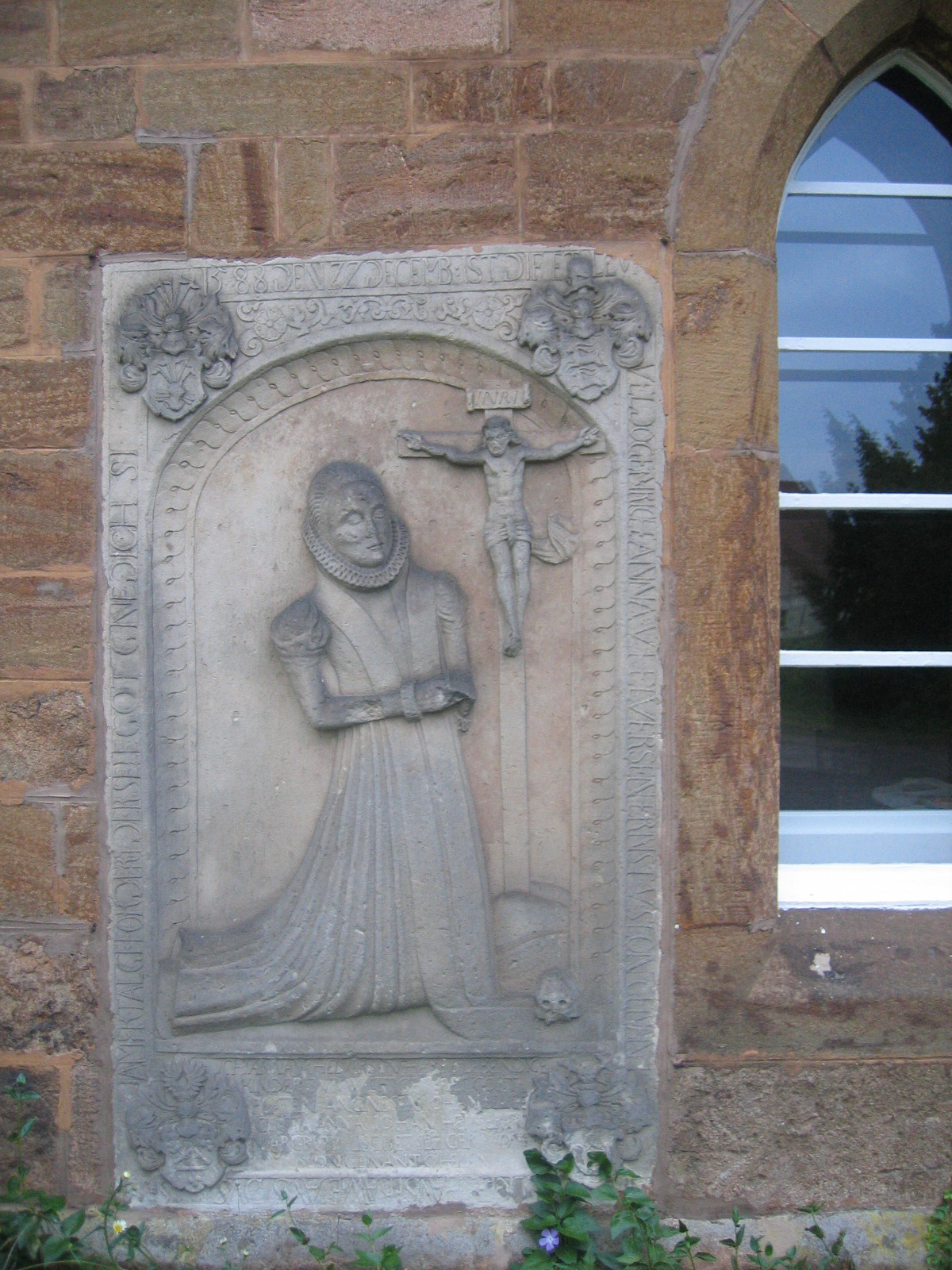 Gravestone at Hollwinkel castle in Preußisch Oldendorf, District of Minden-Lübbecke, North Rhine-Westphalia, Germany.